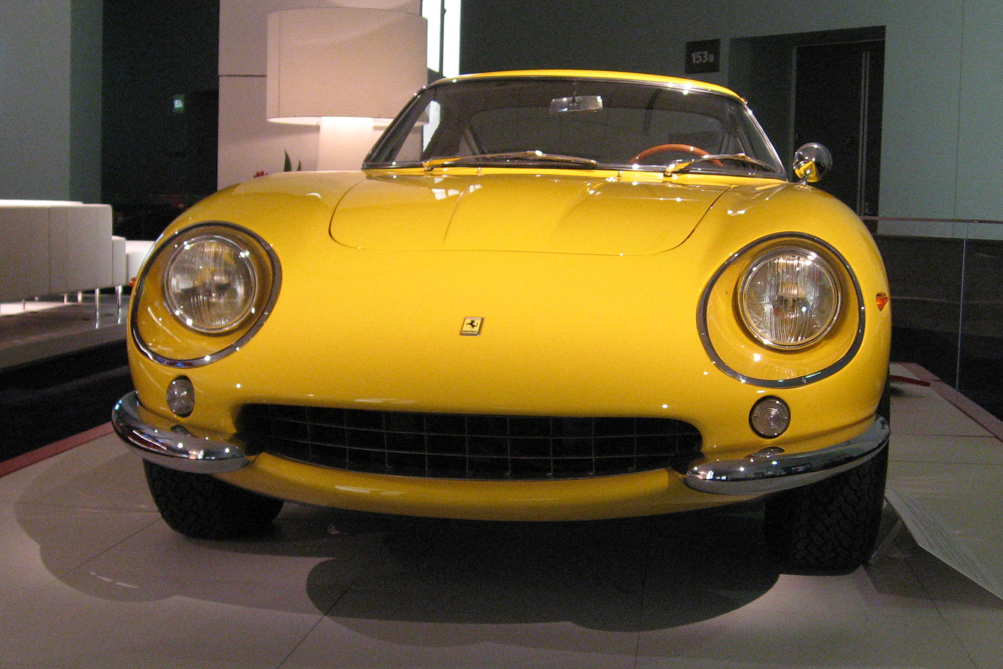 Image of a 1967 Ferrari_275, taken at the 2007 LA Auto Show.